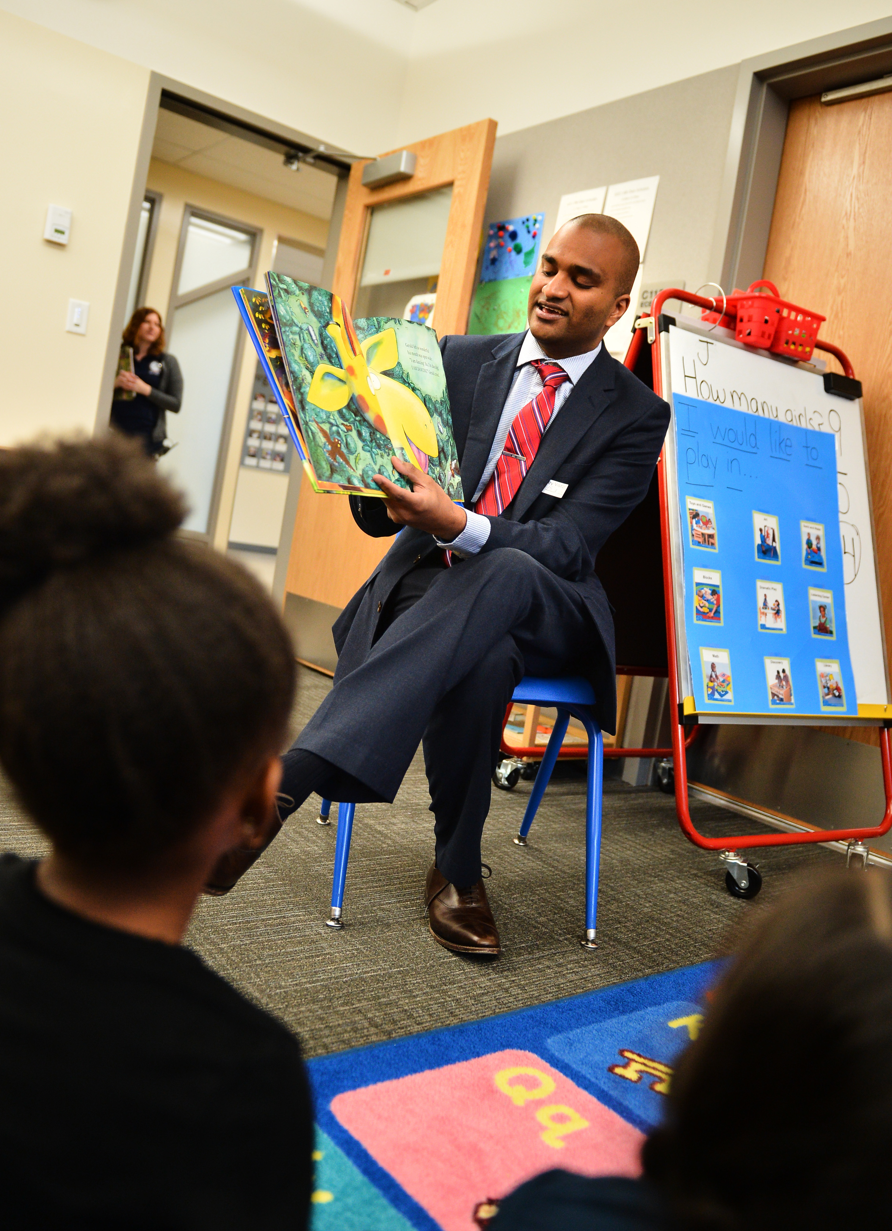 Jason Thomas, program coordinator for Governor John Hickenlooper’s office, reads “Giraffes Can’t Dance” to children at Edna and John W. Mosley P-8 school April 15, 2016, in Aurora, Colo. Thomas joined others as part of the One Book 4 Colorado program, which is designed to encourage children to read. (U.S. Air Force photo by Staff Sgt. Darren Scott/Released) Unit: 460th Space Wing DVIDS Tags: 460th Space Wing; Child Development Center; Colorado; Buckley Air Force Base; Team Buckley; One Book for Colorado; Col John Wagner